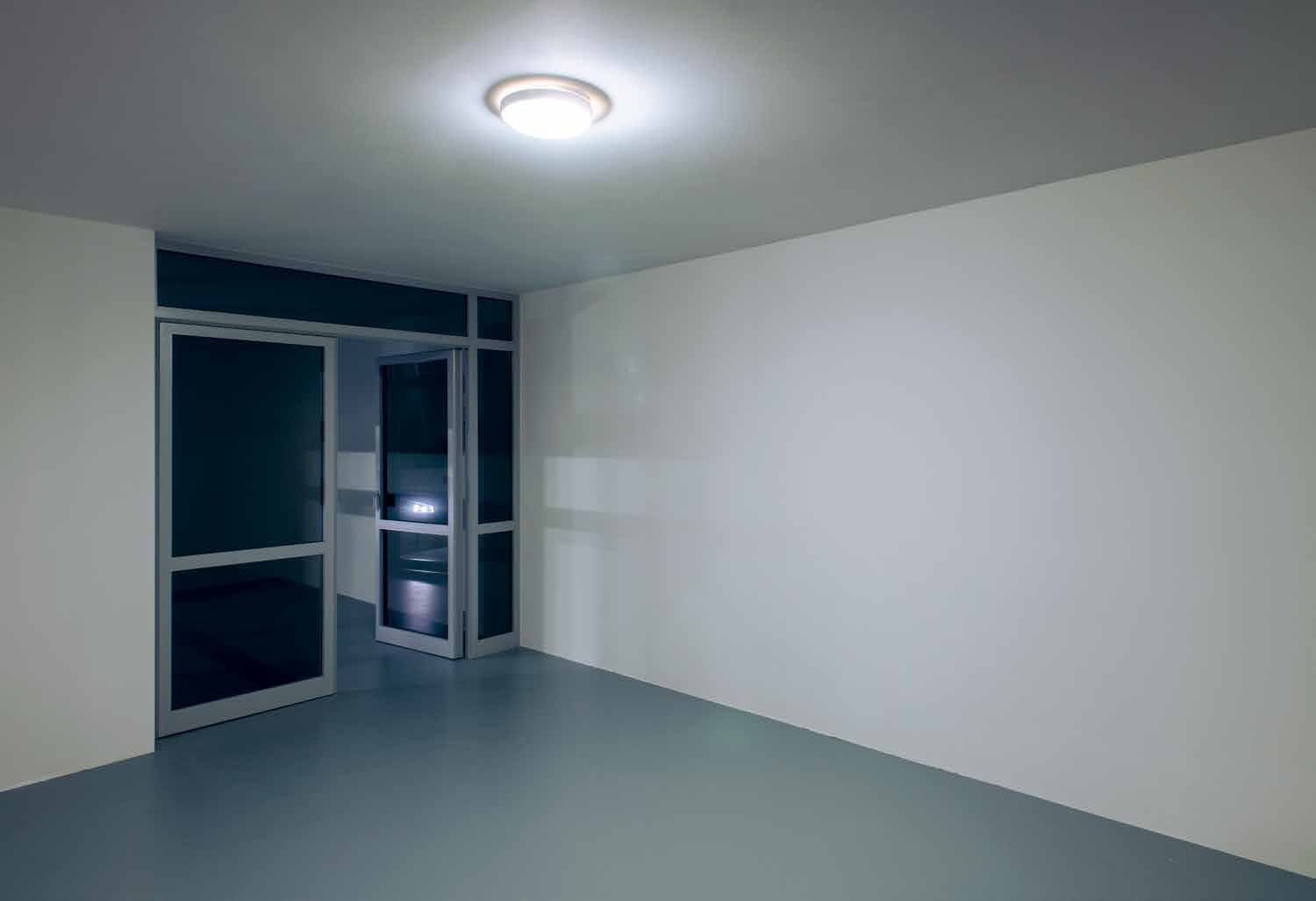 Gil Marco Shani Busess Installation